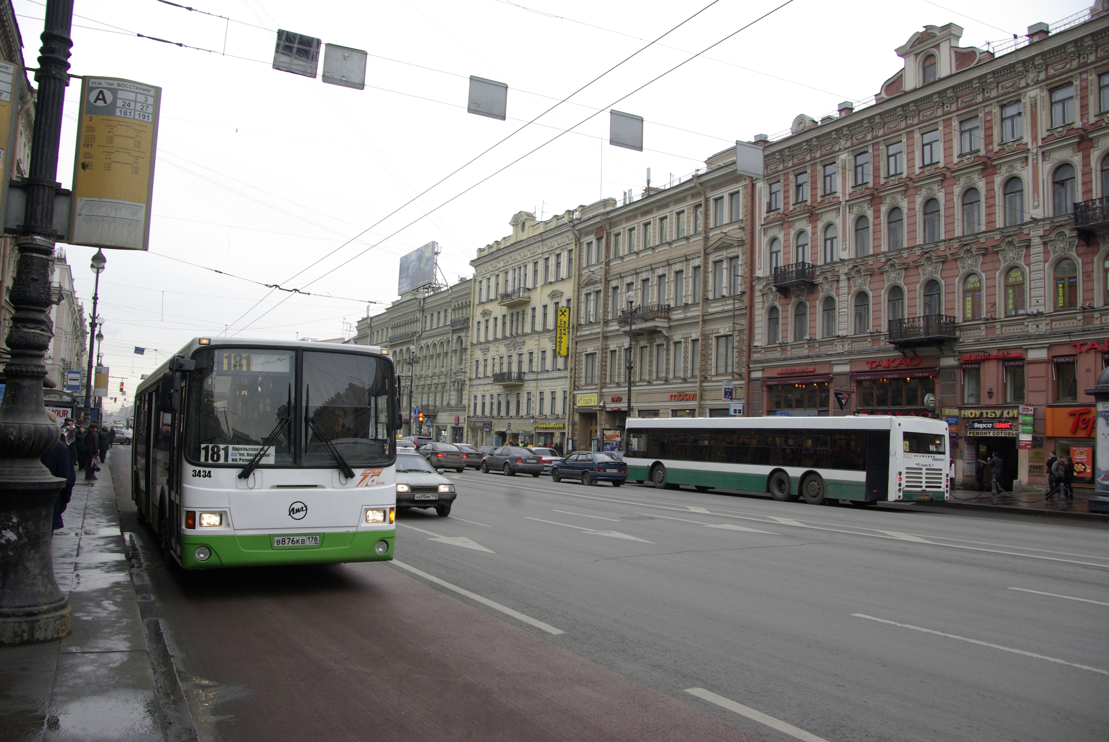 Tsentralny District, St Petersburg, Russia